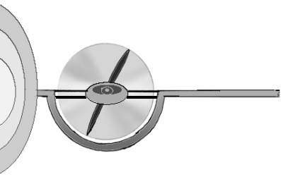 ChannelWing Front